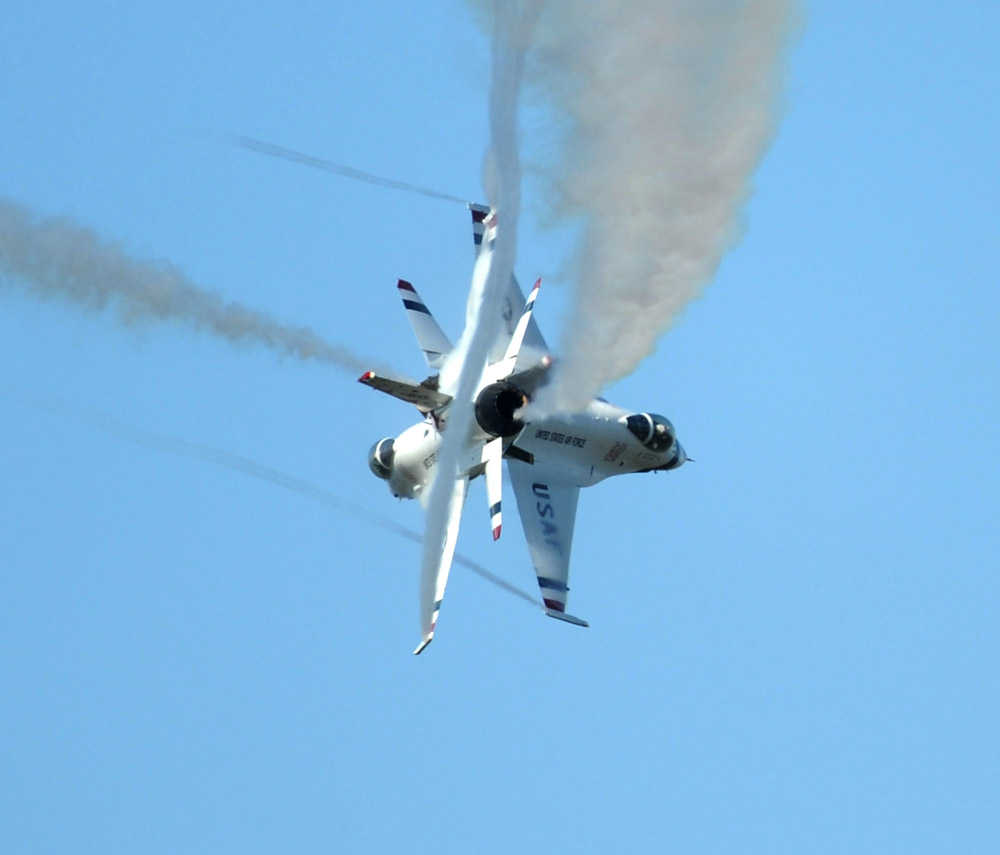 Maj. Aaron Jelinek, Thunderbird 5, Lead Solo and Maj. J.R. Williams, Thunderbird 6, Opposing Solo, perform the Cross Over Break during the Gulf Coast Salute and Open House Air show at Tyndall Air Force Base, Florida.